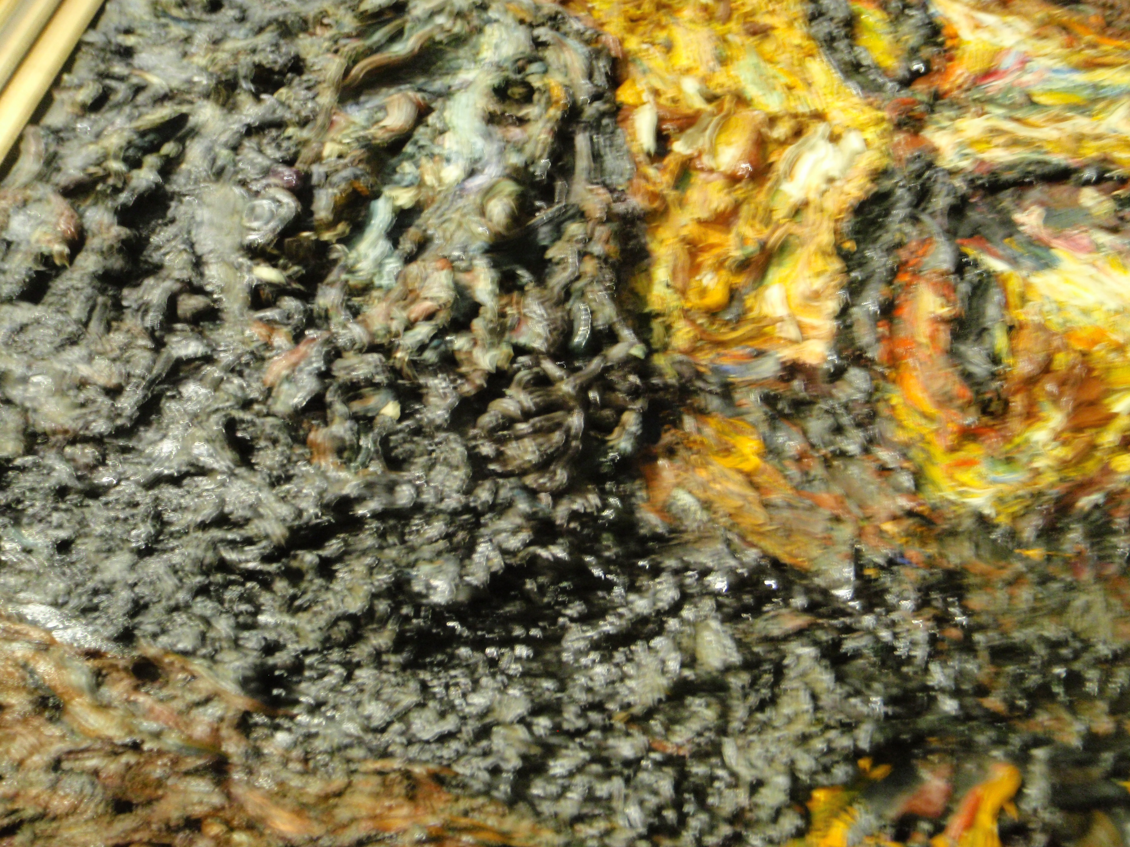 Example of impasto painting (less than 10% of the canvas represented).